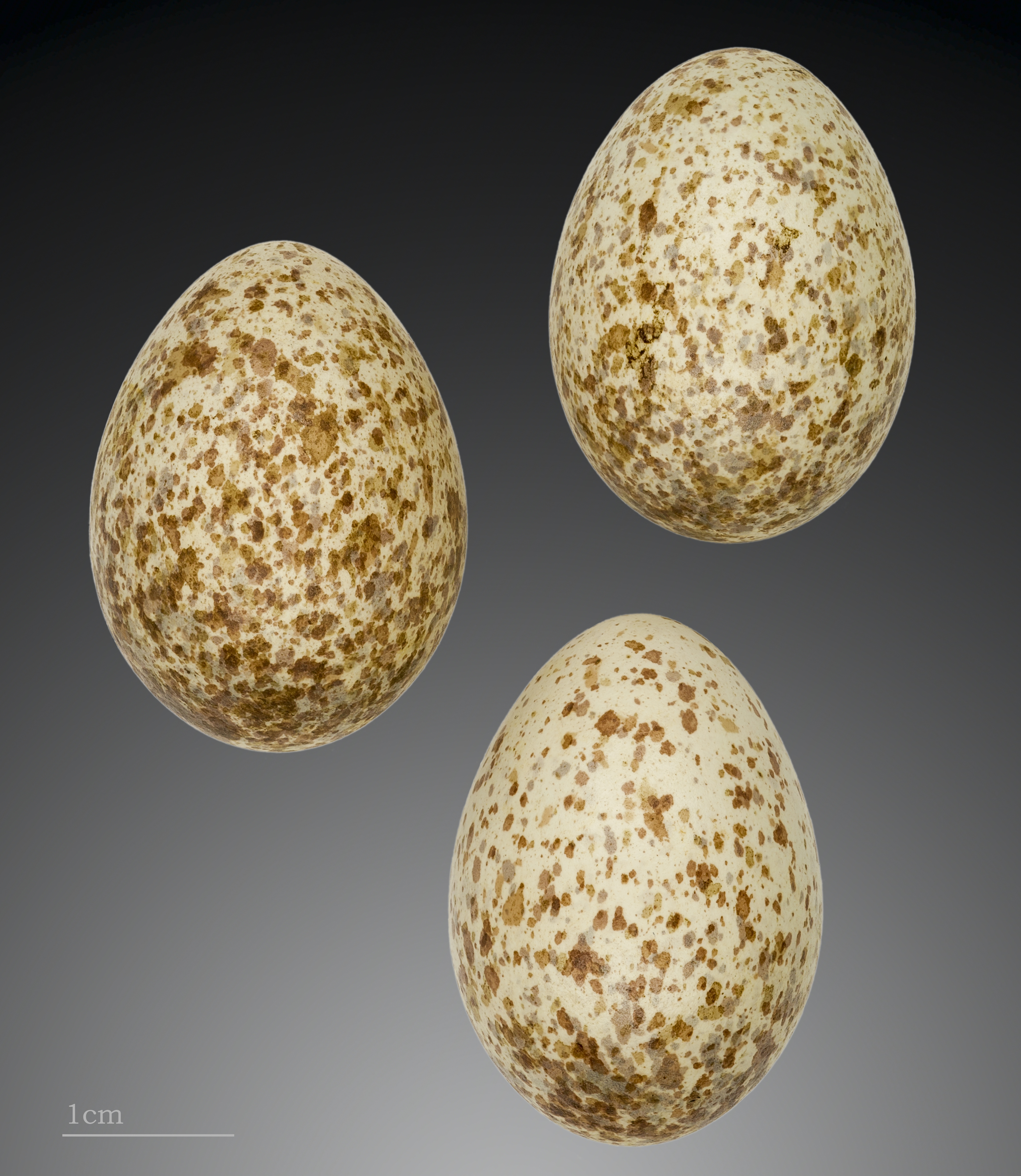 Egg of Southern Grey Shrike. Collection of Jacques Perrin de Brichambaut.